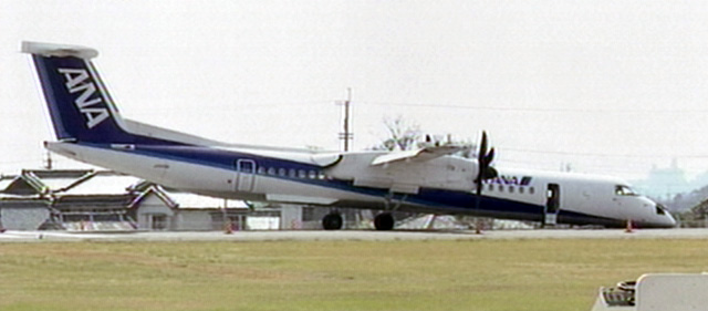 Kochi Airport Dash 8 ANA plane makes belly landing after front landing gear fails to come down 13 March 2007